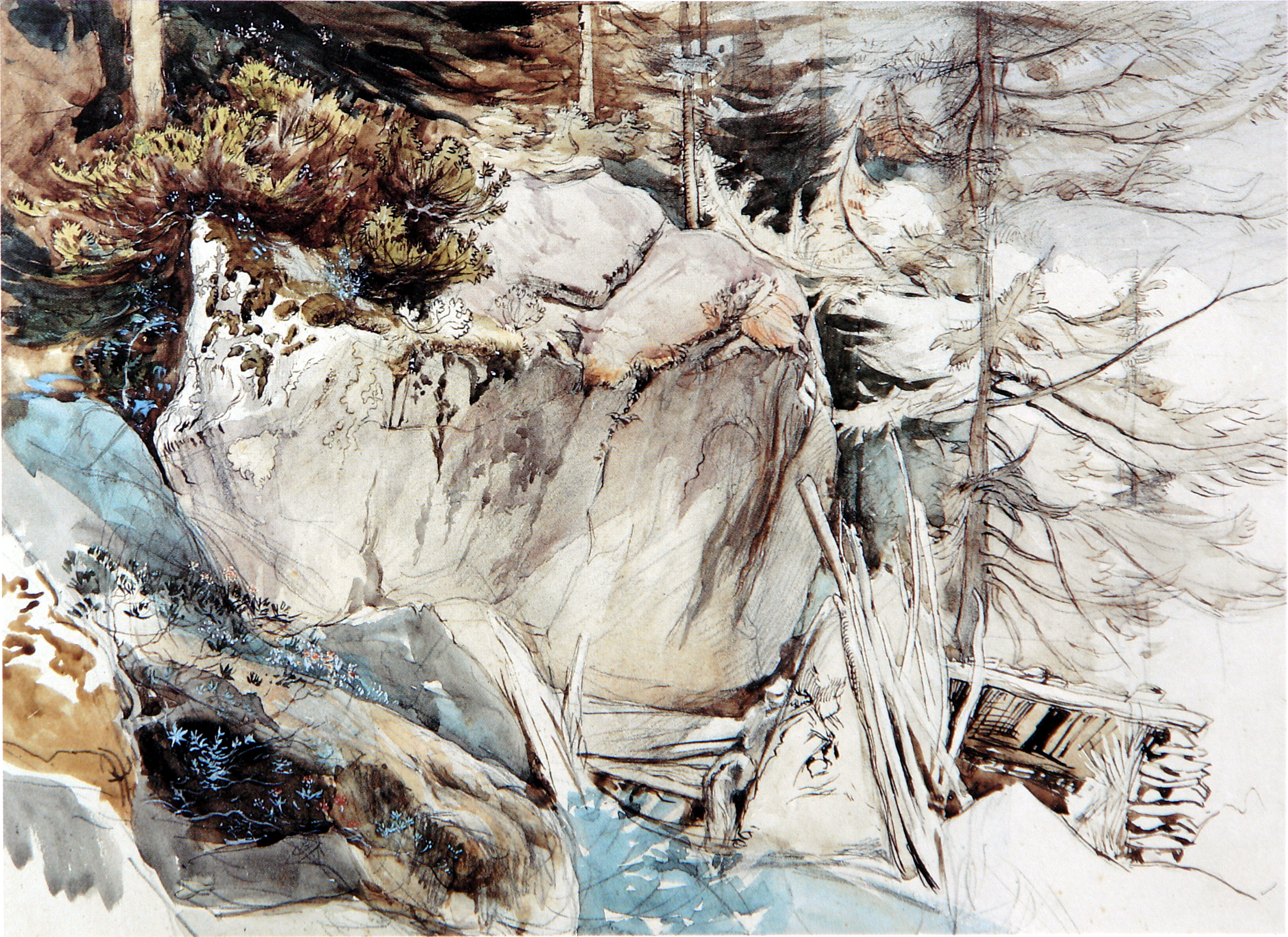 Mountain Rock and Alpine Rose. Pencil, ink, chalk, watercolour and bodycolour, 29.8 x 41.4 cm